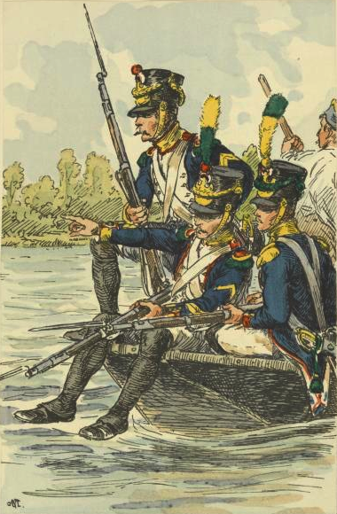 French voltigeurs from a Line regiment crossing the arm of the Danube before the battle of Wagram.